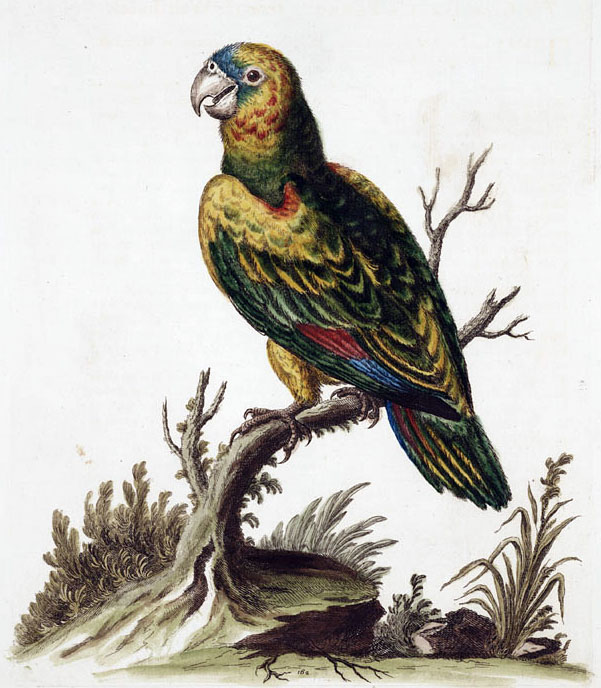 From A natural history of birds. The most of which have not hitherto been either figured or described, and the rest, by reason of obscure, or too brief descriptions without figures, or of figures very ill designed, are hitherto but little known Part IV Written by George Edwards, Library-keeper to the Royal College of Physicians.